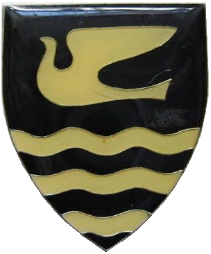 SADF Parys Commando emblem